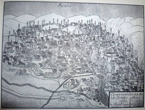 "Seralia" (Sarajevo) in 1697 at the time of the siege by Eugene de Savoy. Excerpts from his diary: October 23, 1697: "I opened a front line on the right side of the city and sent one division to loot and plunder: the Turks have brought all their valuables to security, but we could still find enough spoils. In the evening, a fire broke out. The city is large and fully open. It has 120 beautiful mosques." October 24, 1697: "We have completely burned down the city and all outskirts. Our troops, which have chased the enemy, have fetched spoils, women and children too. Many Christians are coming to us and begging for protection. They are coming with all their belongings in our camp because they want to leave the land and join us. I hope that I will be able to take all of them over the Sava river."